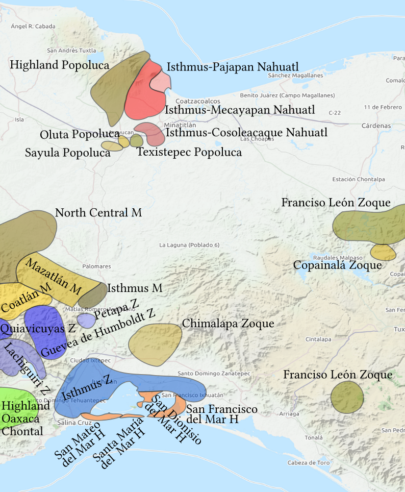 Map of Isthmus Zapotec and surrounding languages